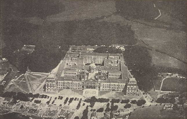 Mafra Monastery, in Portugal. This image was published on the Gazeta dos Caminhos de Ferro magazine no. 1169, of the 1st September 1936, and scanned by the Hemeroteca Municipal de Lisboa.